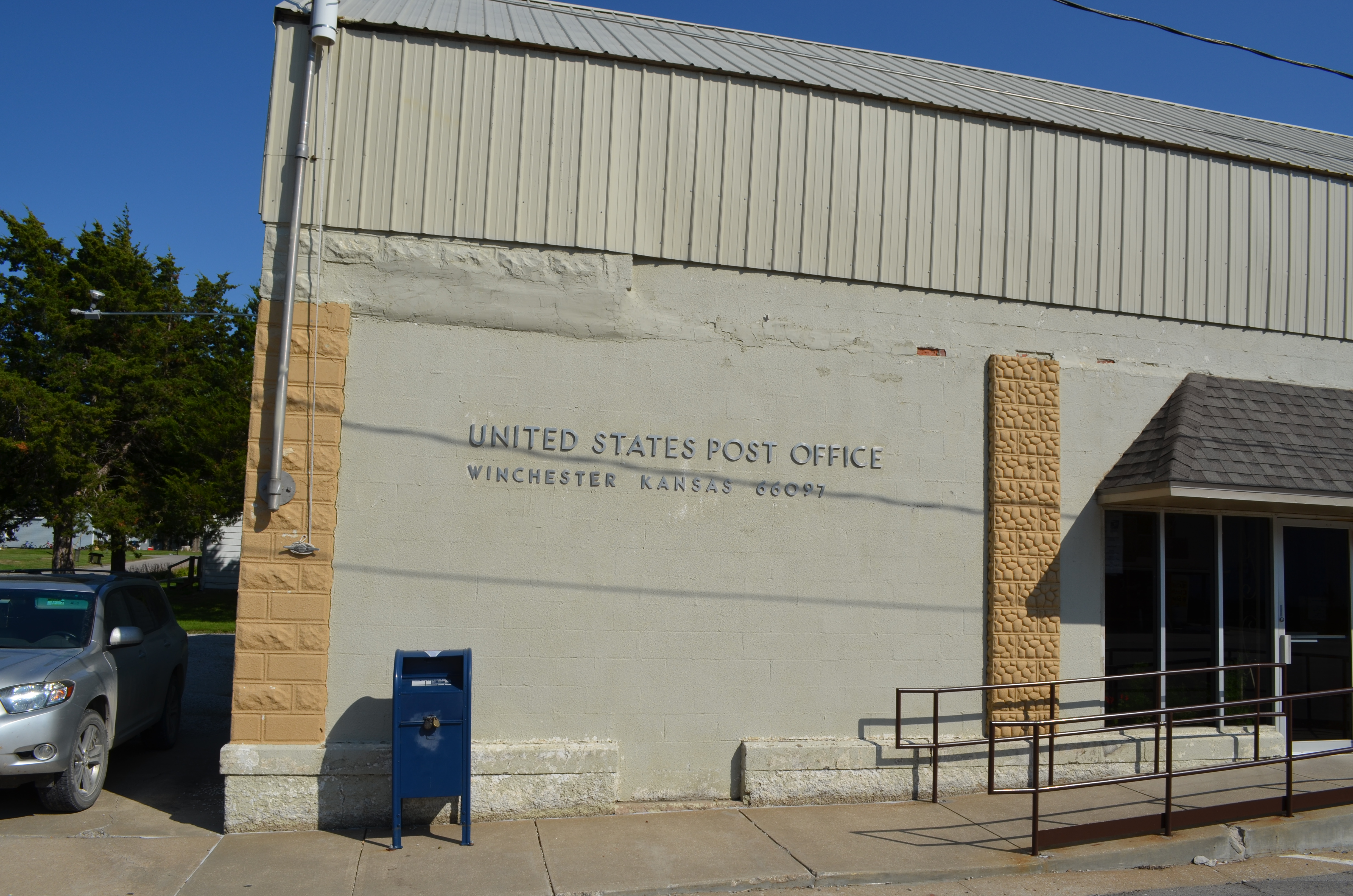 Winchester Kansas Post Office